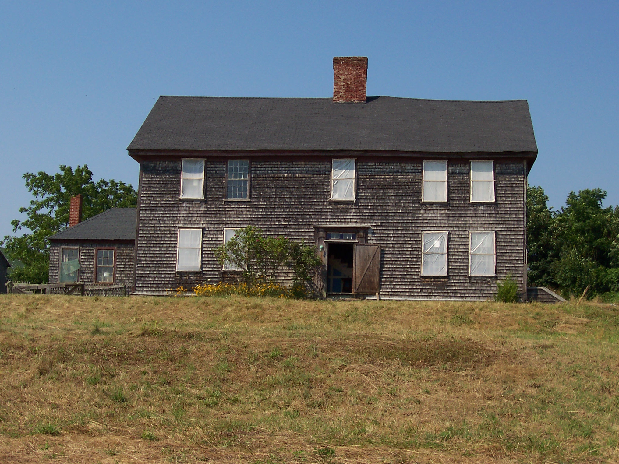 Picture of the Stanton-Davis Homestead built in 1670 in Pawcatuck, CT